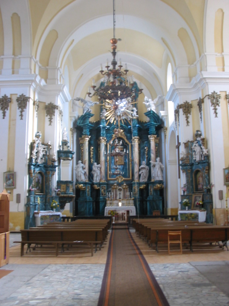 Interior of Roman Catholic Church, Buchach, Ukraine